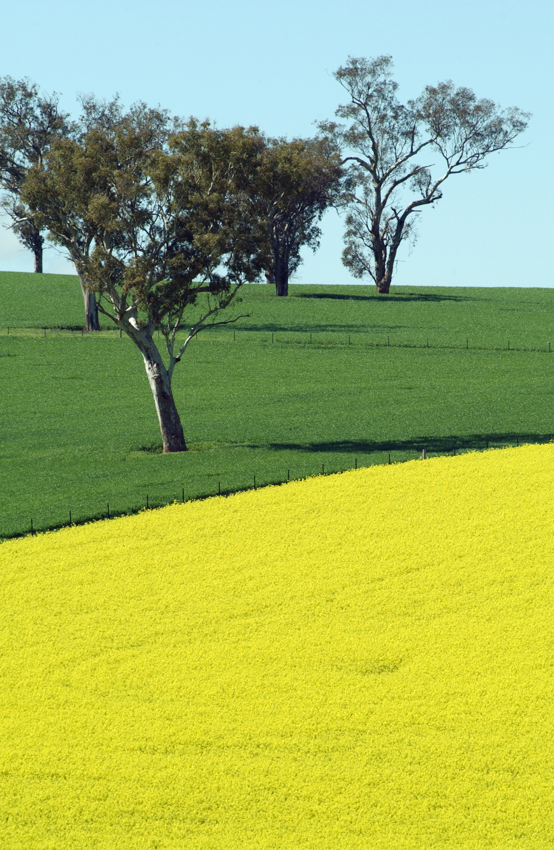 Wheat and Canola crops at "Derneveagh", Harden, NSW.